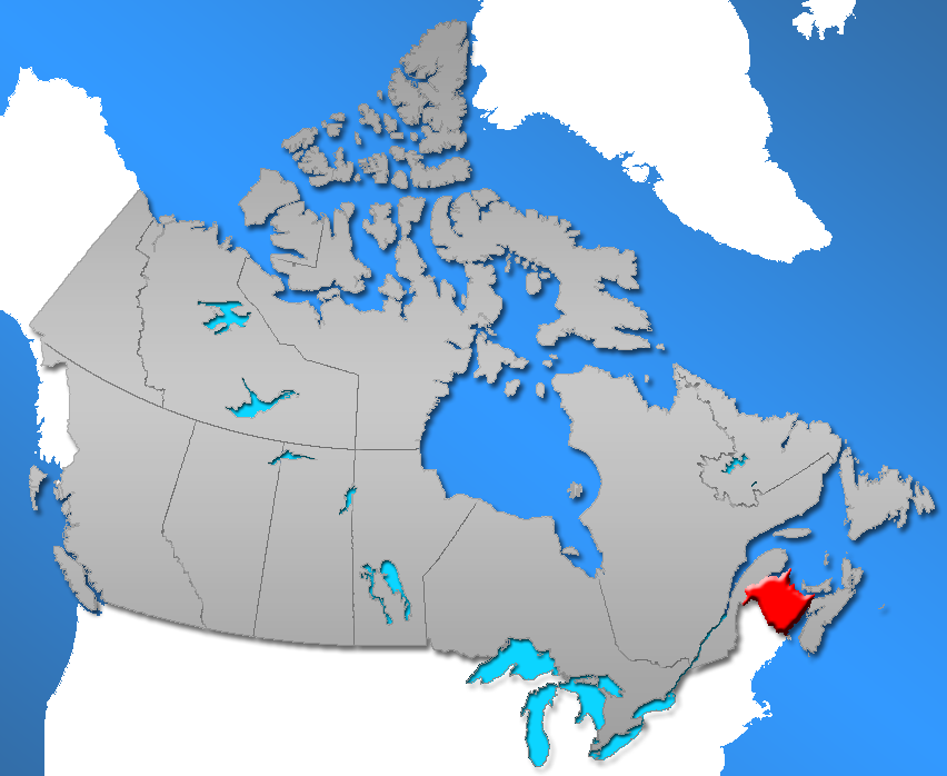 Province of New Brunswick in Canada